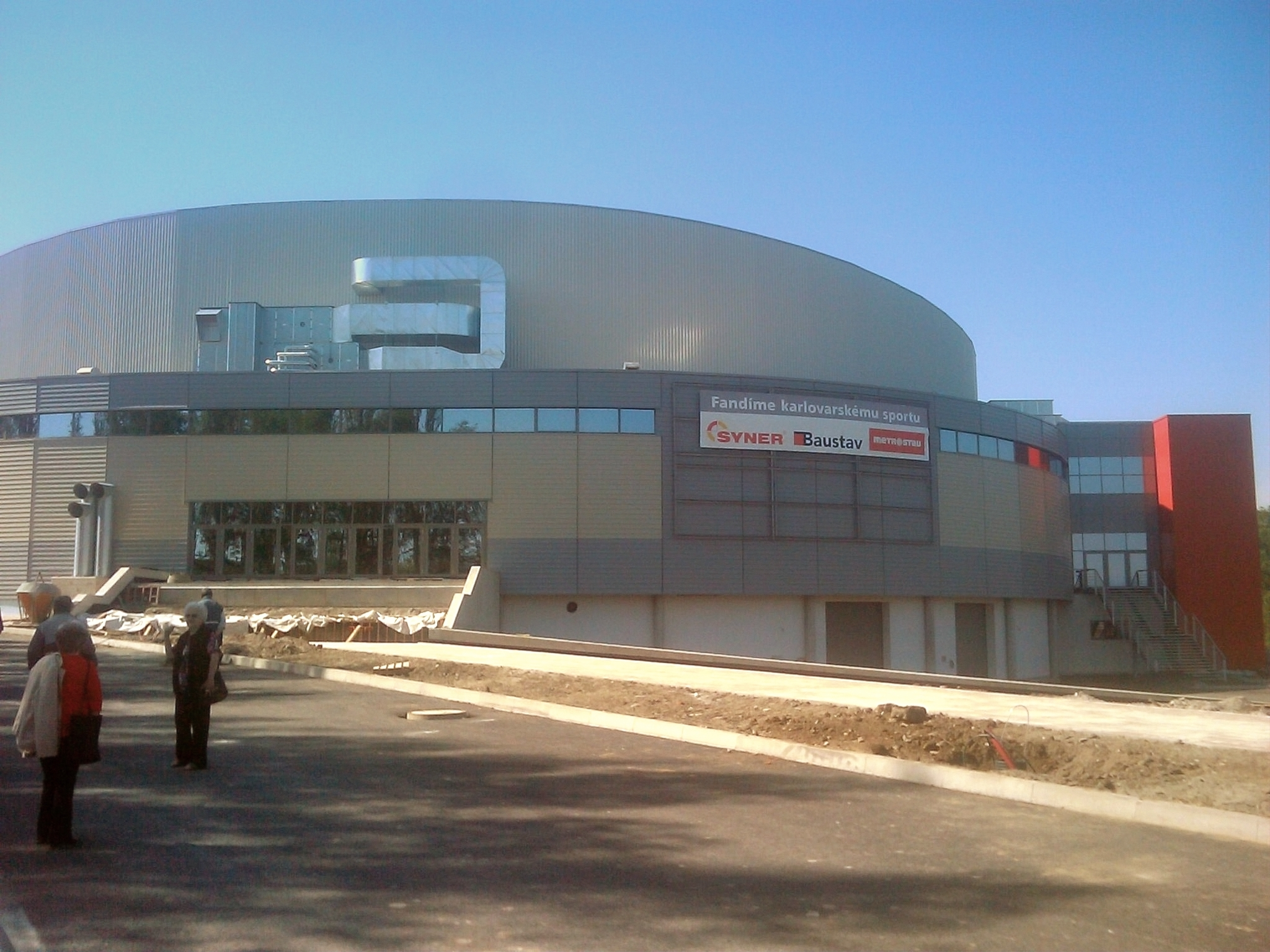 Multifunction ice-hockey stadium KV Arena